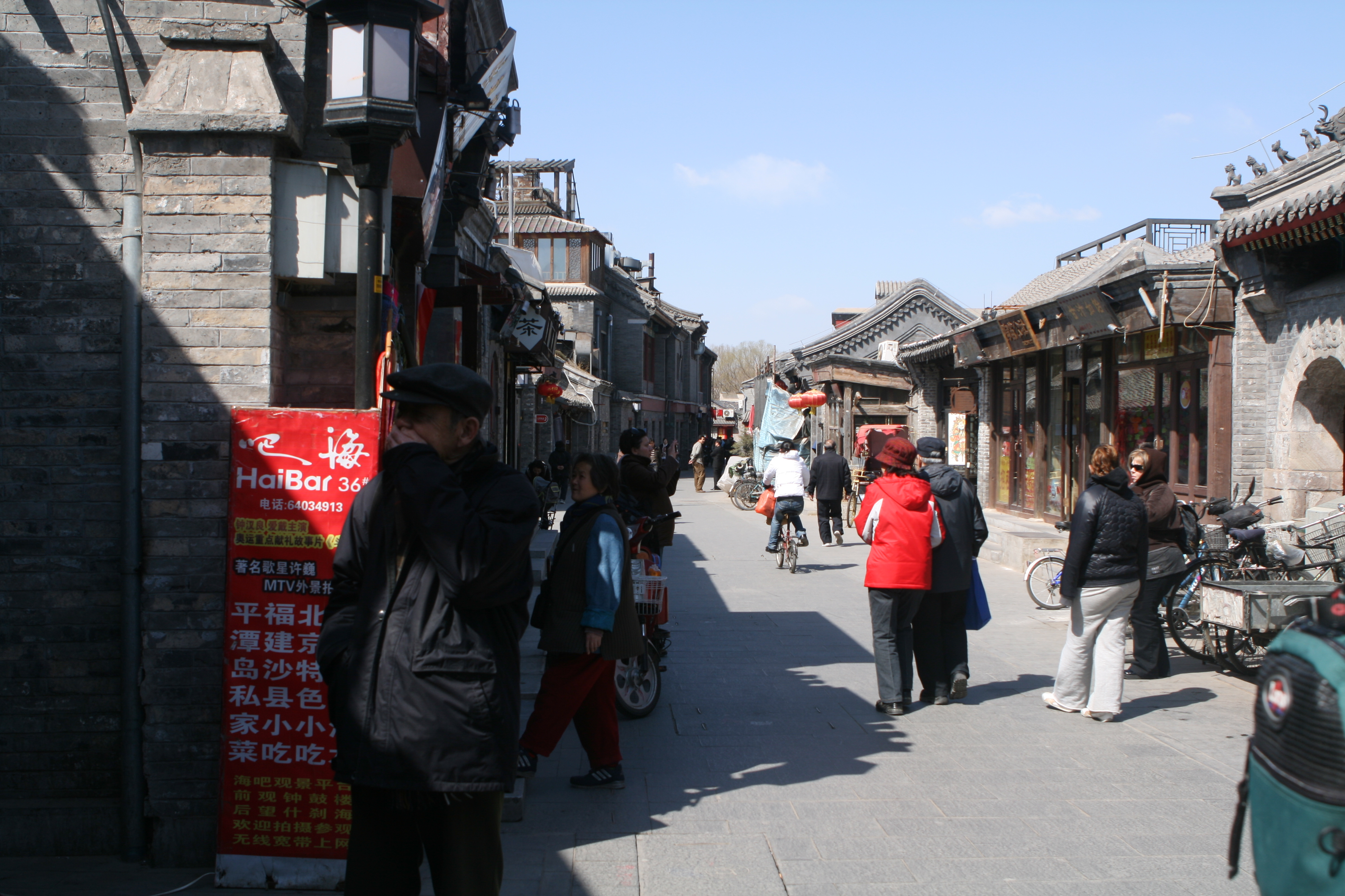 A bustling commercial area of a Beijing hutong.